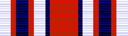 Department of Commerce Silver Medal Ribbon.